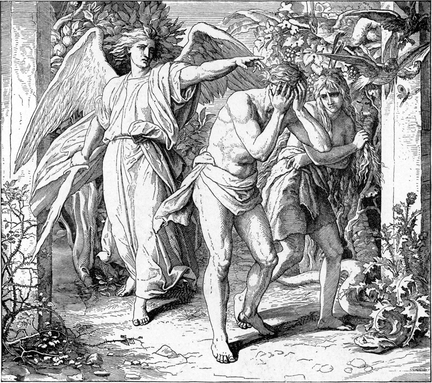 Adam and Eve are being sent out of the garden of Eden